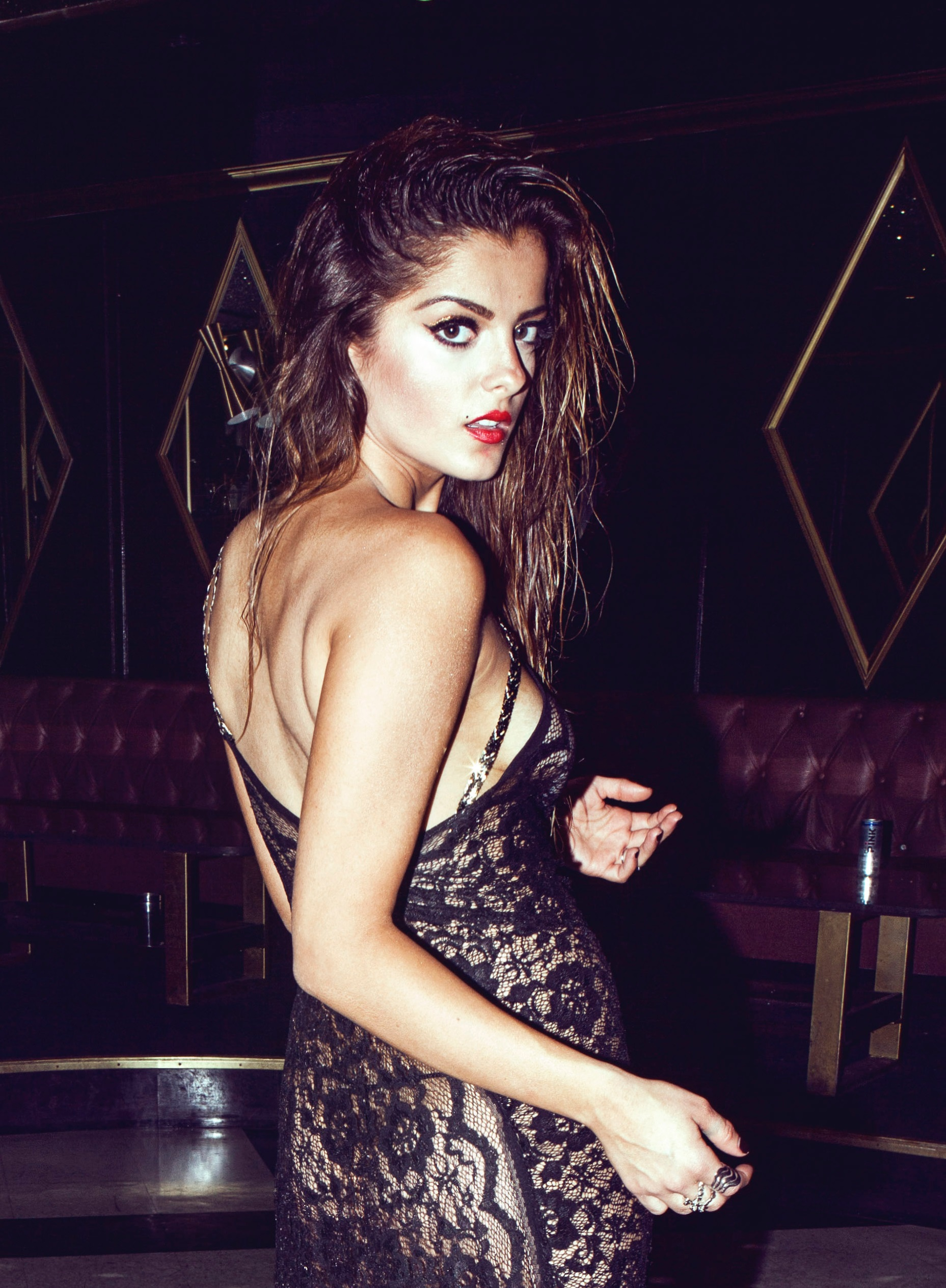 Image will be used in info box of Bebe Rexha's Page